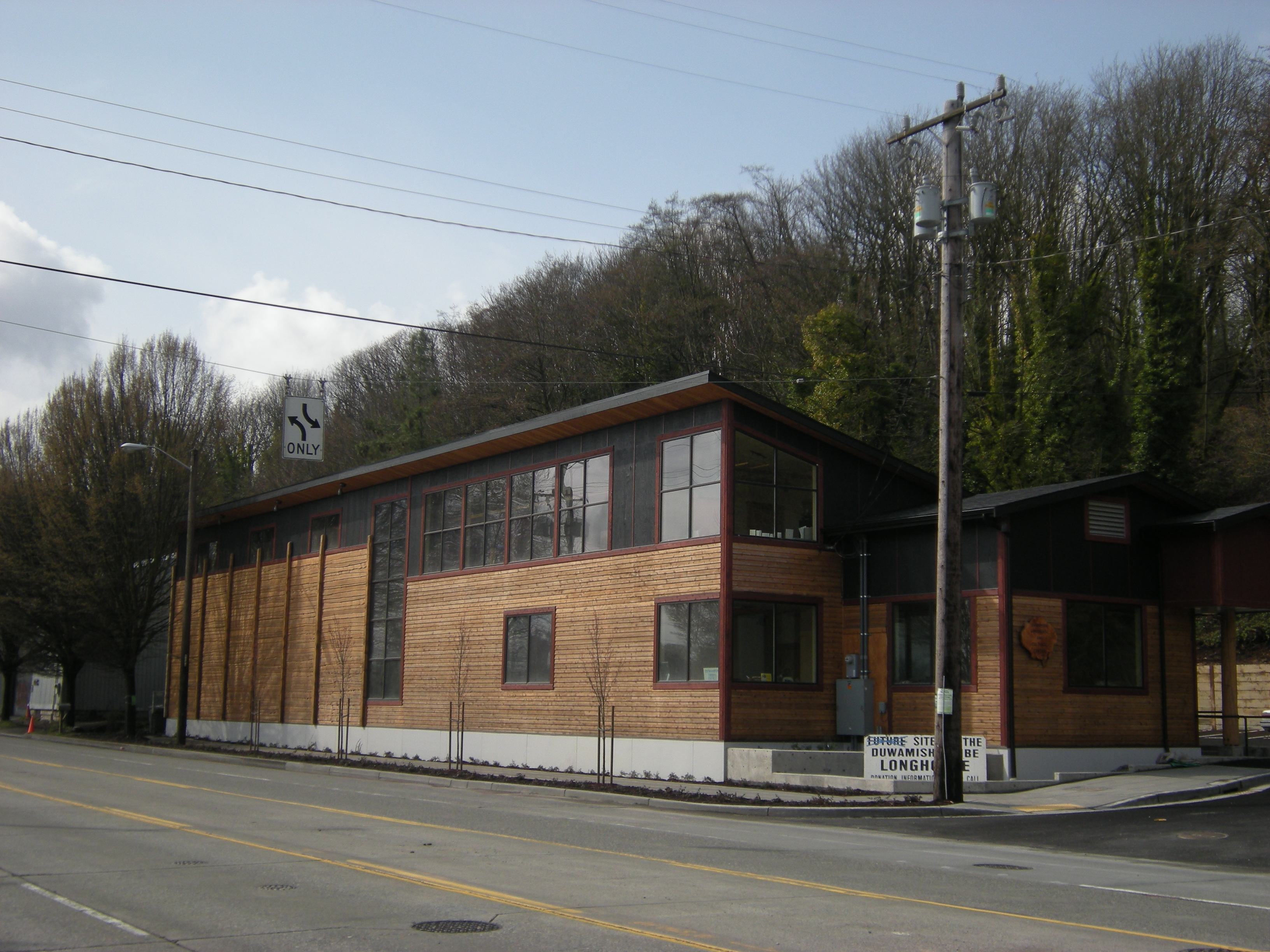 Duwamish Longhouse and Cultural Center, 4705 W. Marginal Way SW, West Seattle, Seattle, Washington.